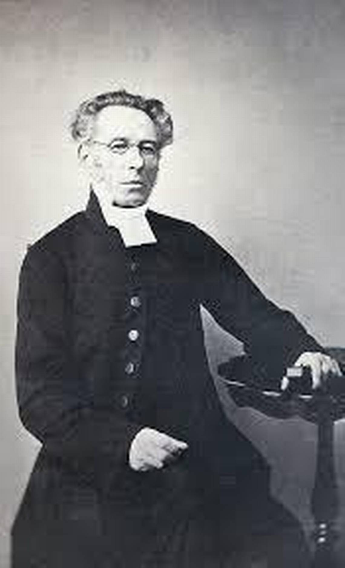 The swedish vicar and serial killer Anders Lindbäck